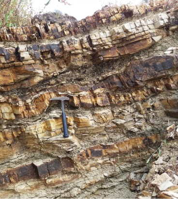 Outcrop of intra-volcanic sediments in a roadcut at Ksad Addi Amyuq near Hagere Selam, Tigray, Ethiopia